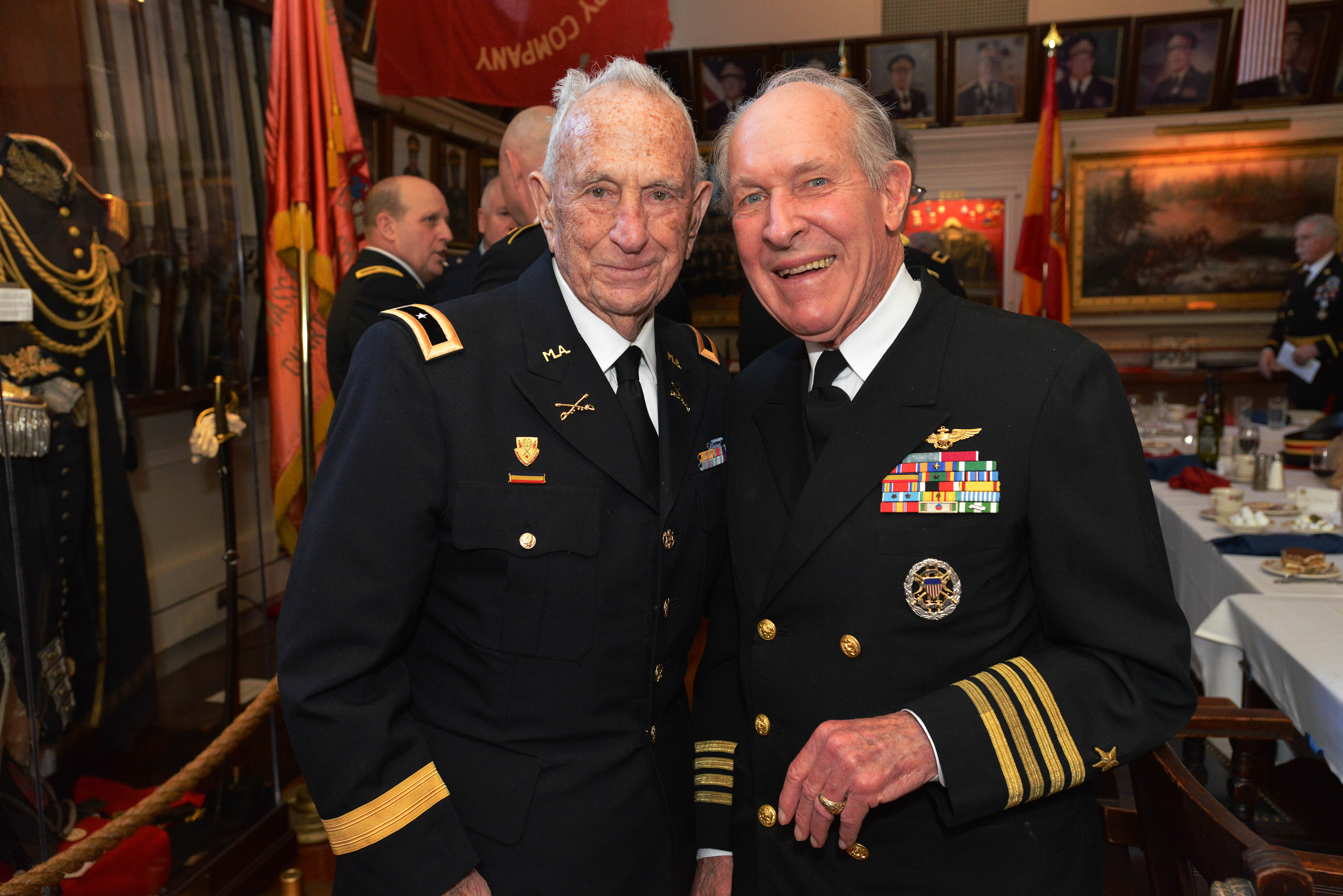 BOSTON– Brig. Gen. (MA) Mario DiCarlo, commander, National Lancers and Medal of Honor recipient Retired U.S. Navy Capt. Thomas Hudner, pose for a picture after the Ancient and Honorable Artillery Company’s President’s Day Luncheon, Faneuil Hall, Feb. 17, 2014. The AHAC recognized Soldiers from the Massachusetts Army National Guard who were some of the first responders during the April 15, 2013 terrorist bombing of the Boston Marathon. The AHAC was chartered by the Mass. Legislature in 1638 as a volunteer militia company. For a large part of the AHAC’s first 250 years, many members of the unit went on to become officers in the Massachusetts Militia. With the formation of today’s National Guard and the nationwide federal standards for military officers, the AHAC transitioned into a patriotic and service organization. (U.S. Army National Guard photo by Staff Sgt. Jerry Saslav, Massachusetts National Guard Public Affairs/Released)